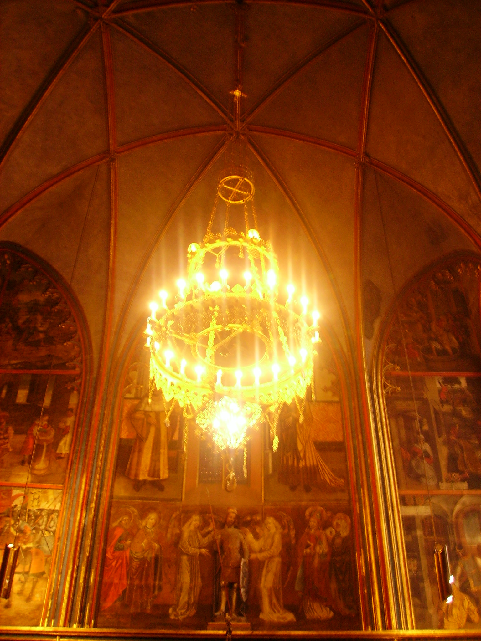 Candlestick of the Golden Chamber at the catholic Cathedral St. Vitus, Prague